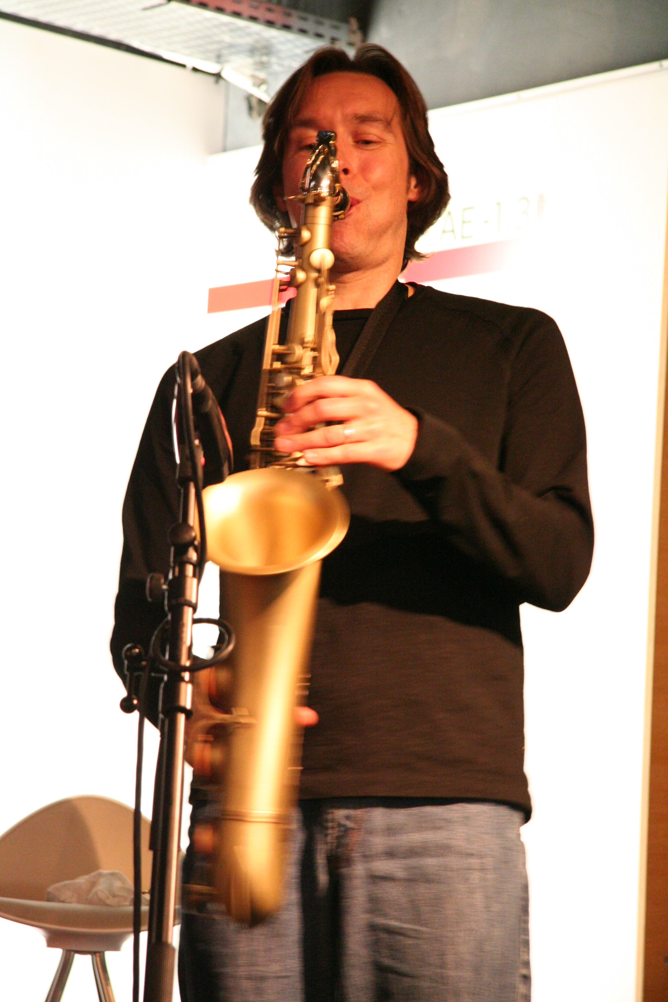 Show-case with Stacey Kent at Fnac Montparnasse (Paris, France).